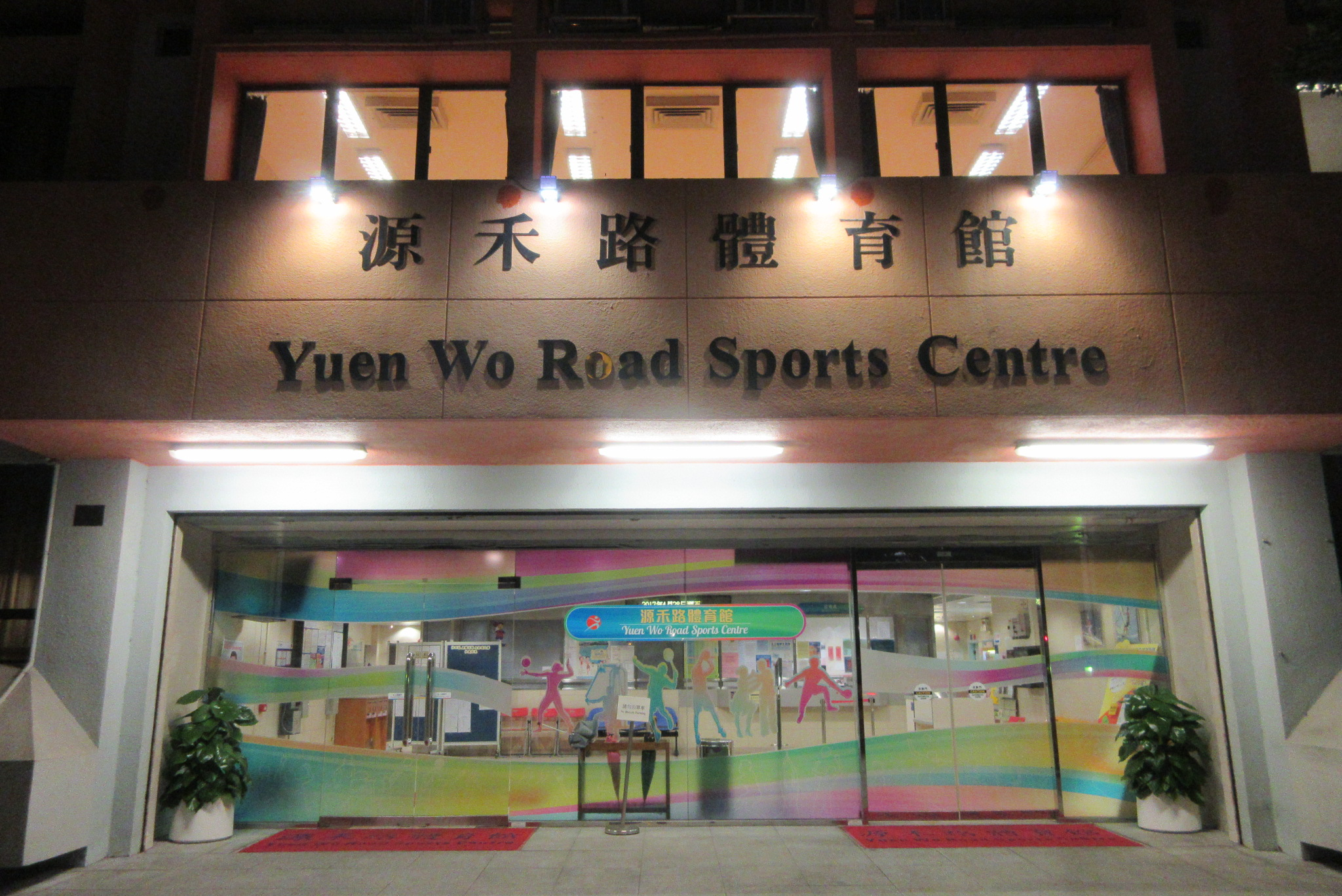 HK 沙田 Shatin 源禾路 Yuen Wo Road in April 2017